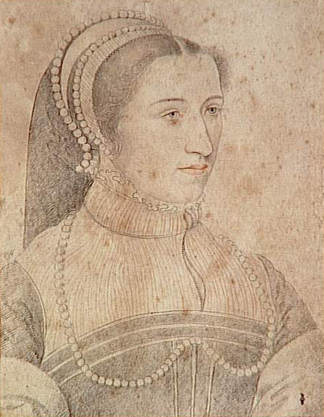 Portrait of Renée de Rieux, also known as Guyonne de Rieux (not to be confused with Renée de Rieux de Châteauneuf, mistress of Henry II of France). Sanguine and black chalk, French school, ca. 1560. Musée Condé of Chantilly, France (MN 303).